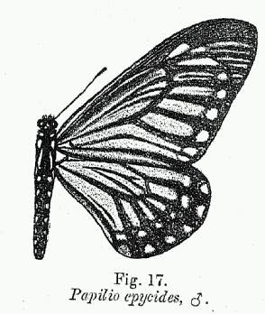 Lesser Mime